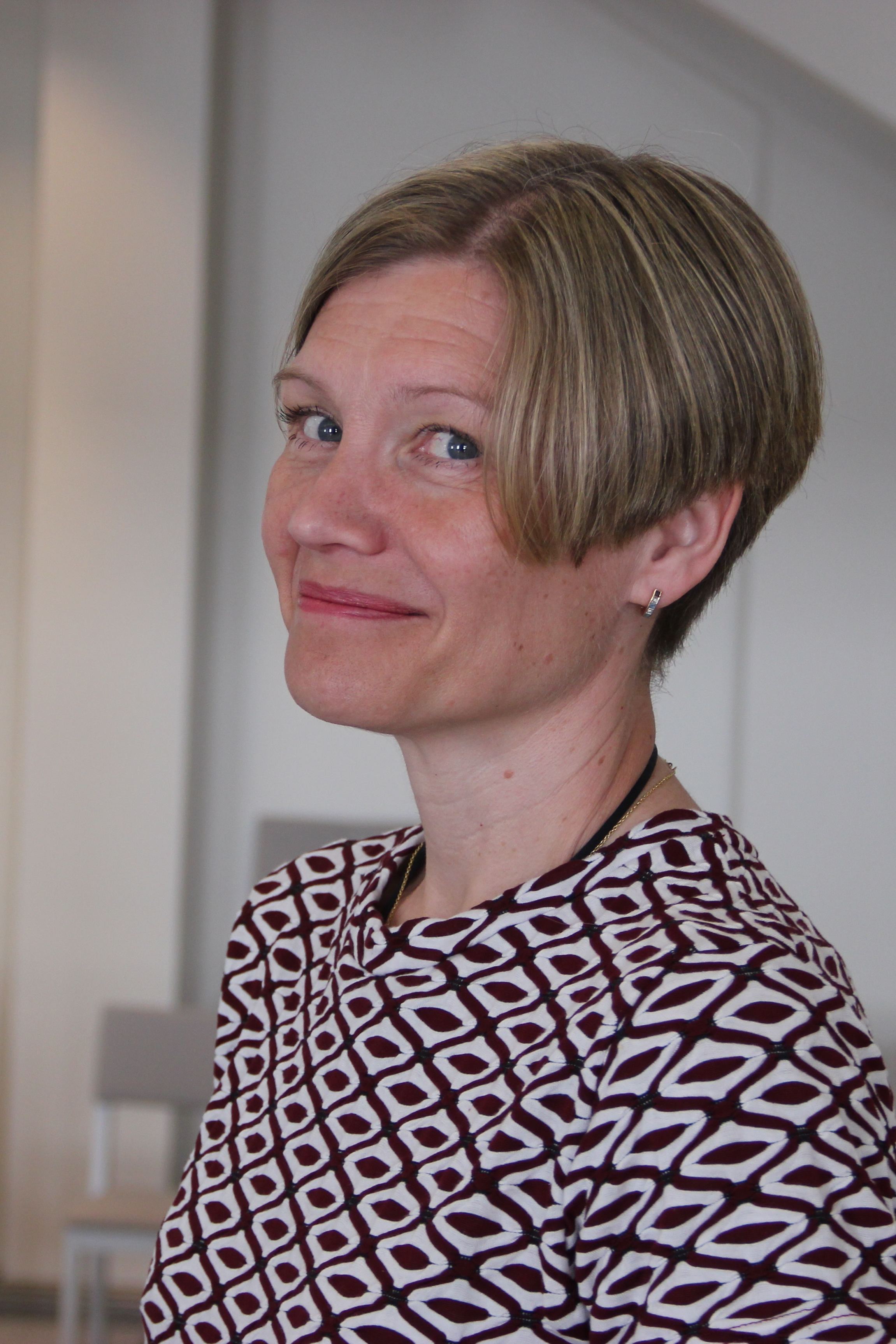 Maria Ailio, Finnish architect